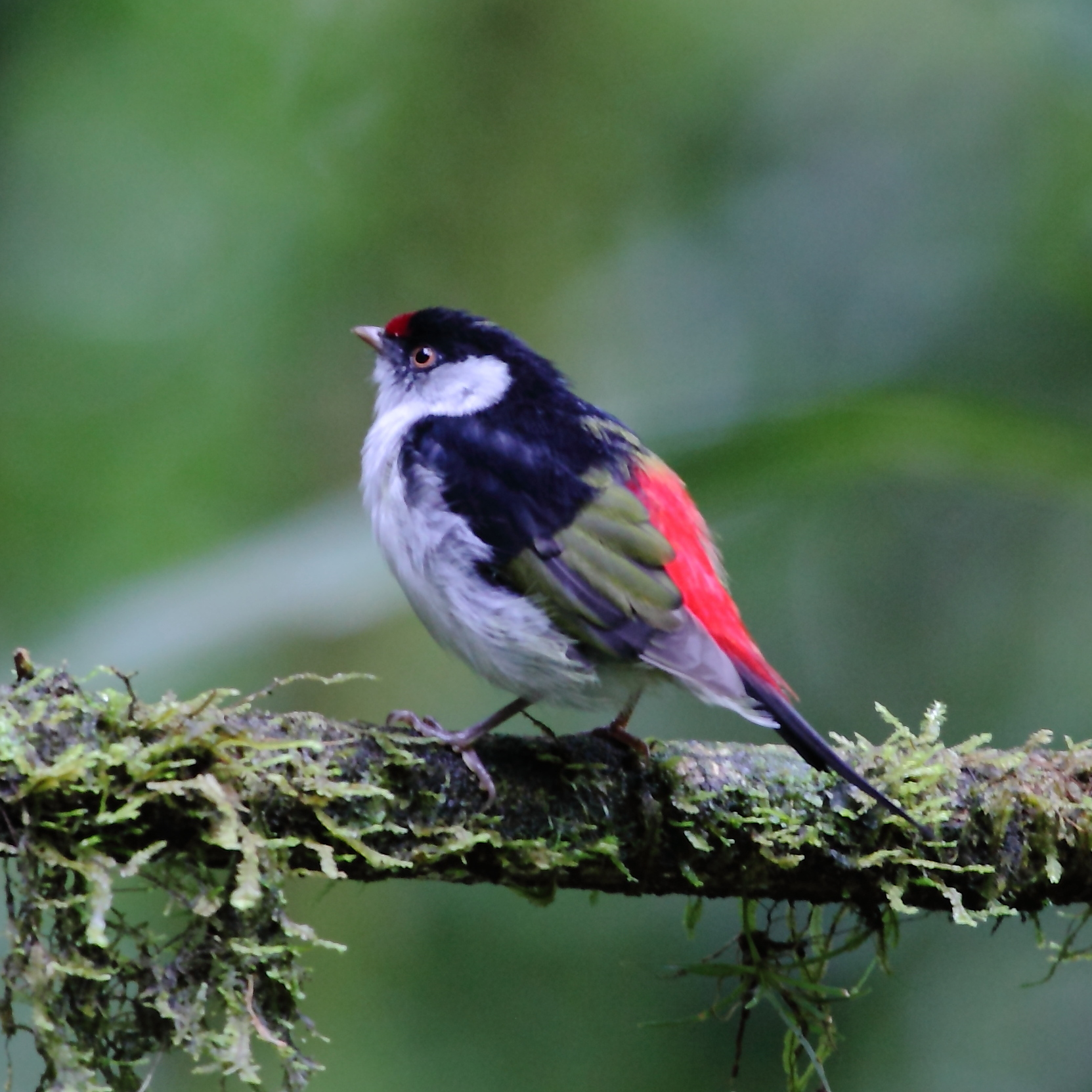 Pin-tailed Manakin (male) at São Luiz do Paraitinga - SP - Brazil